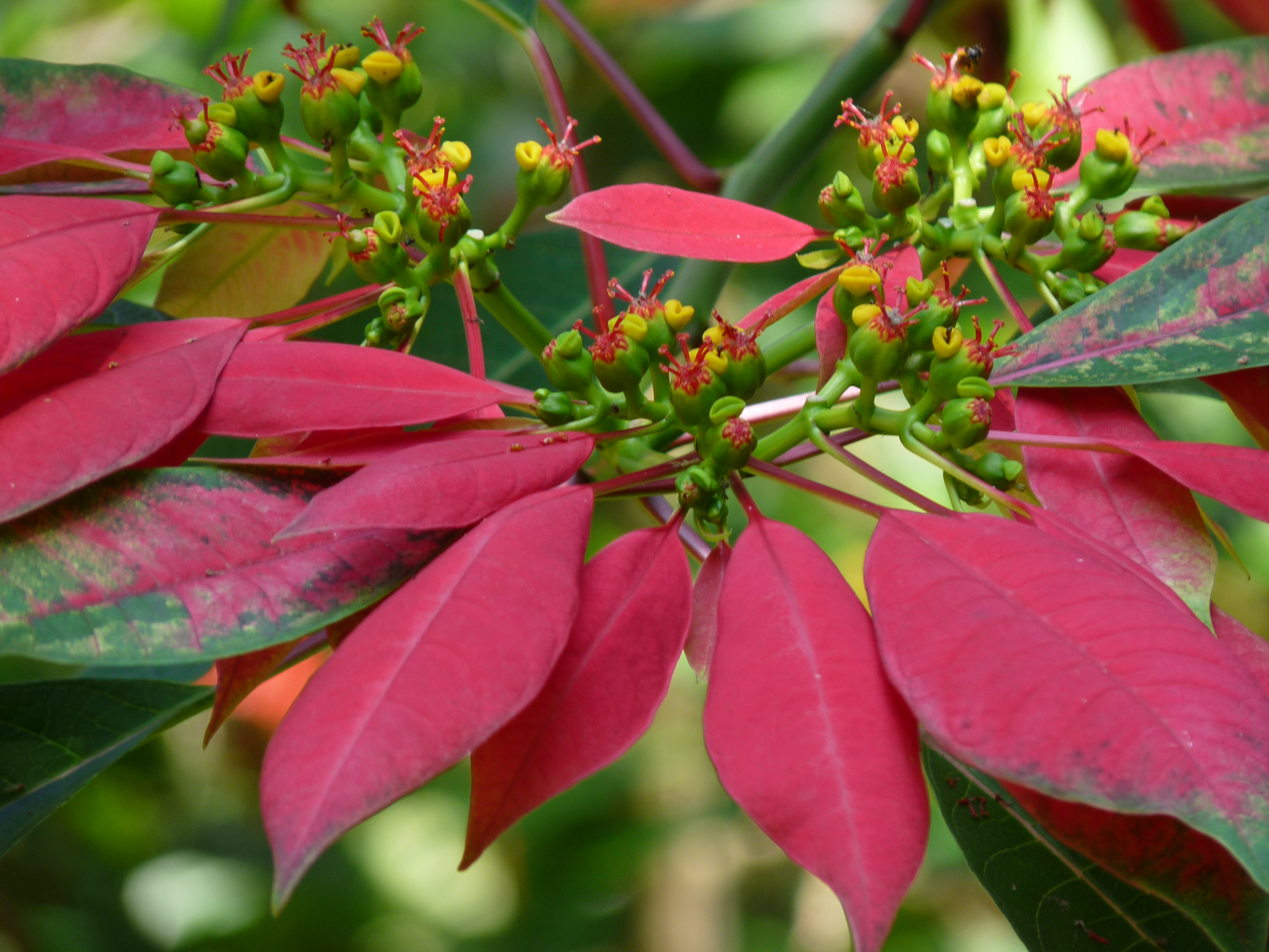 Euphorbia pulcherrima (Poinsettia) Euphorbia pulcherrima, commonly known as Poinsettia, is a species of flowering plant indigenous to Mexico and Central America. The name "poinsettia" is after Joel Roberts Poinsett, the first United States Minister to Mexico, who introduced the plant into the US in 1828. It is also called the Atatürk flower. Euphorbia pulcherrima is a shrub or small tree, typically reaching a height of 0.6 to 4 m (2 to 16 ft). The plant bears dark green dentate leaves that measure 7 to 16 cm (3 to 6 inches) in length. The colored bracts—which are most often flaming red but can be orange, pale green, cream, pink, white or marbled—are actually leaves. The colors come from photoperiodism, meaning that they require darkness for 12 hours at a time to change color. At the same time, the plants need a lot of light during the day for the brightest color. Because of their groupings and colors, laymen often think the bracts are the flower petals of the plant. In fact, the flowers are grouped within the small yellow structures found in the center of each leaf bunch, and they are called cyathia.